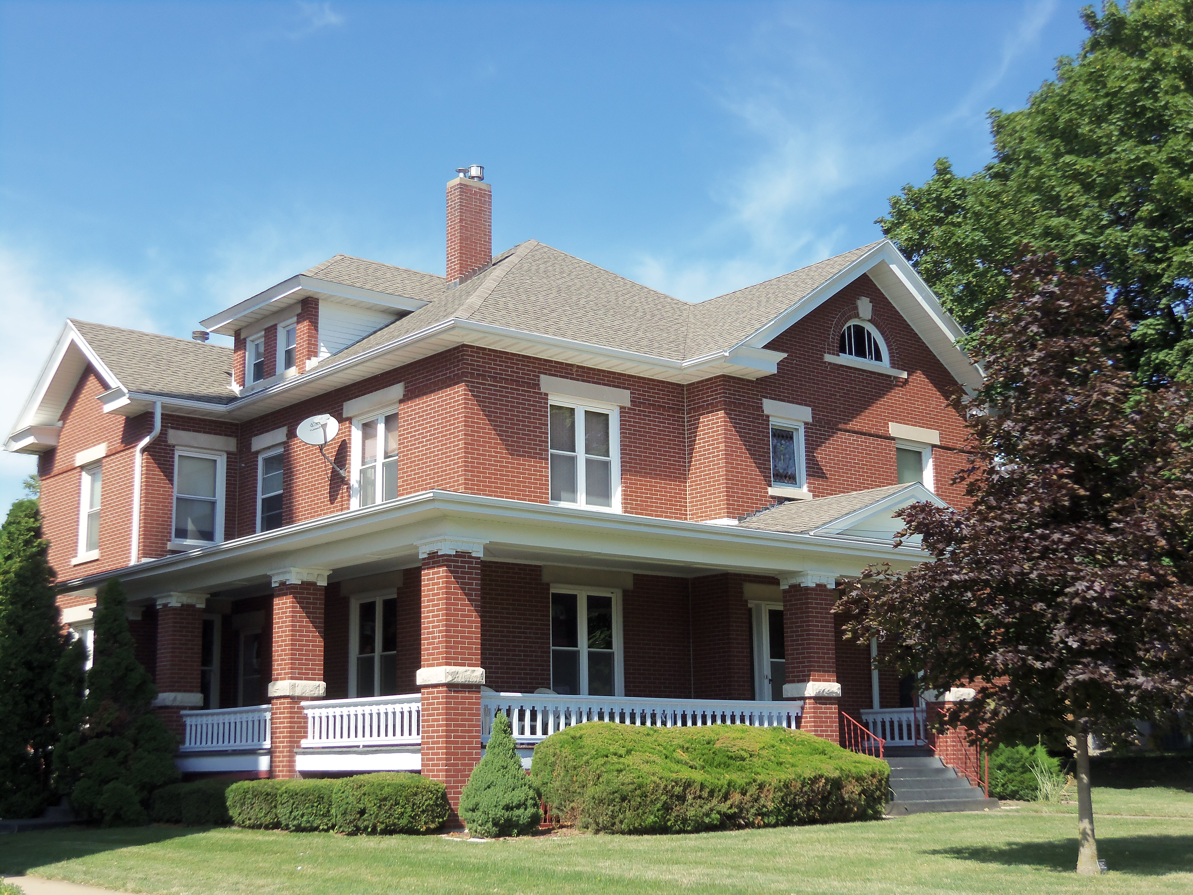 Saint Mary's Rectory in Riverside, Iowa. It is part of a historic district on the National Register of Historic Places that includes all the parish buildings.